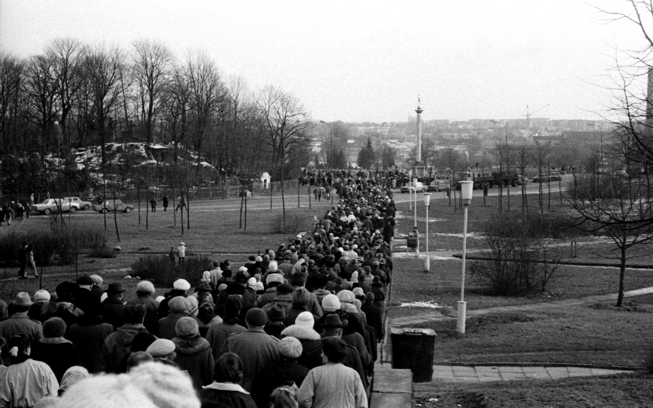 Day of Lithuanian independence in Šiauliai, Lithuania